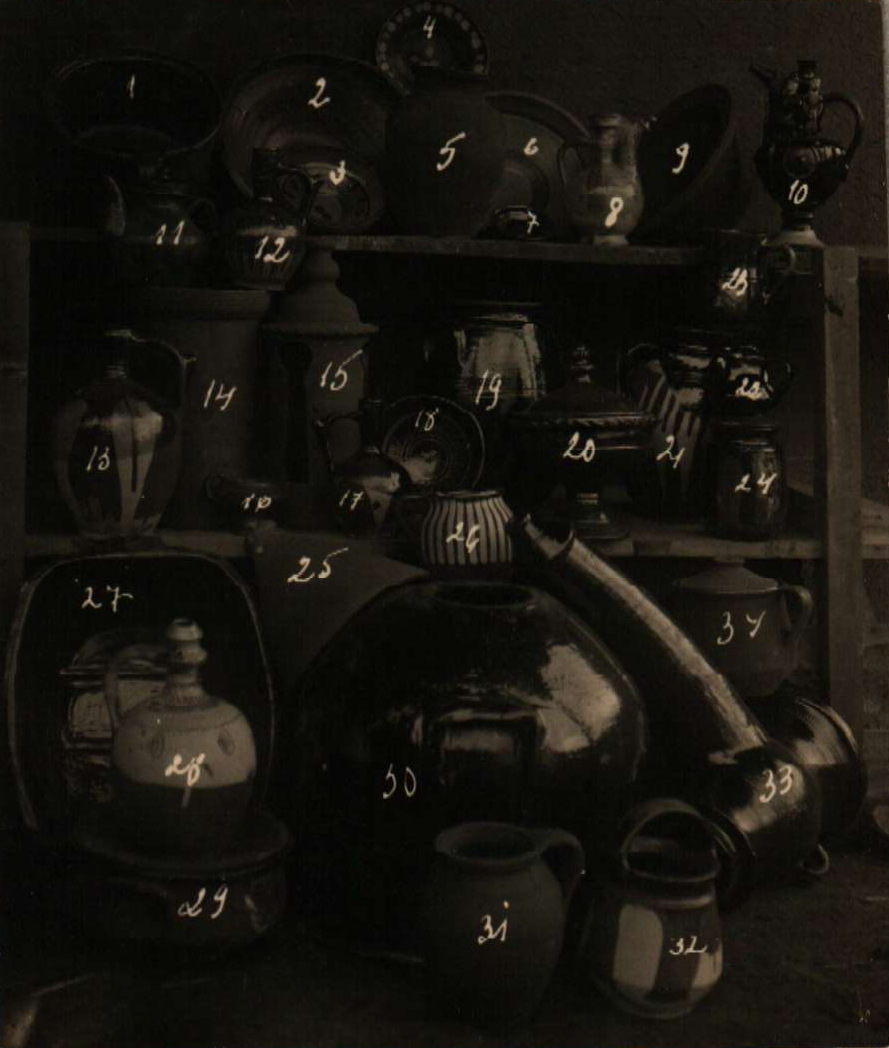 Pottery in Bulgaria